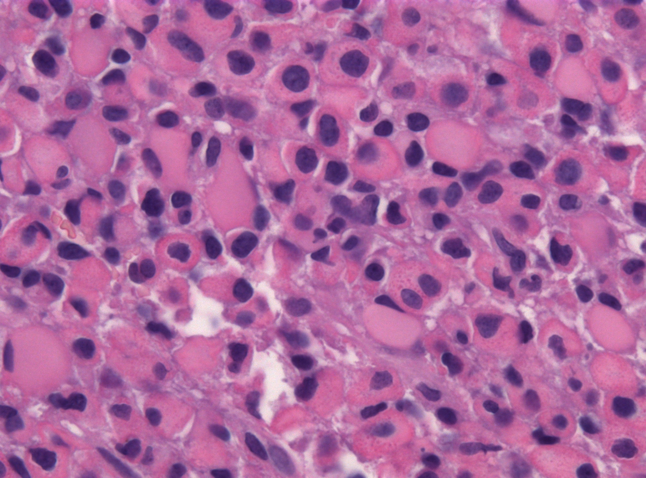 Histopathology specimen of diffuse astrocytoma, gemistocytic appearance (H&E stain, high magnification)